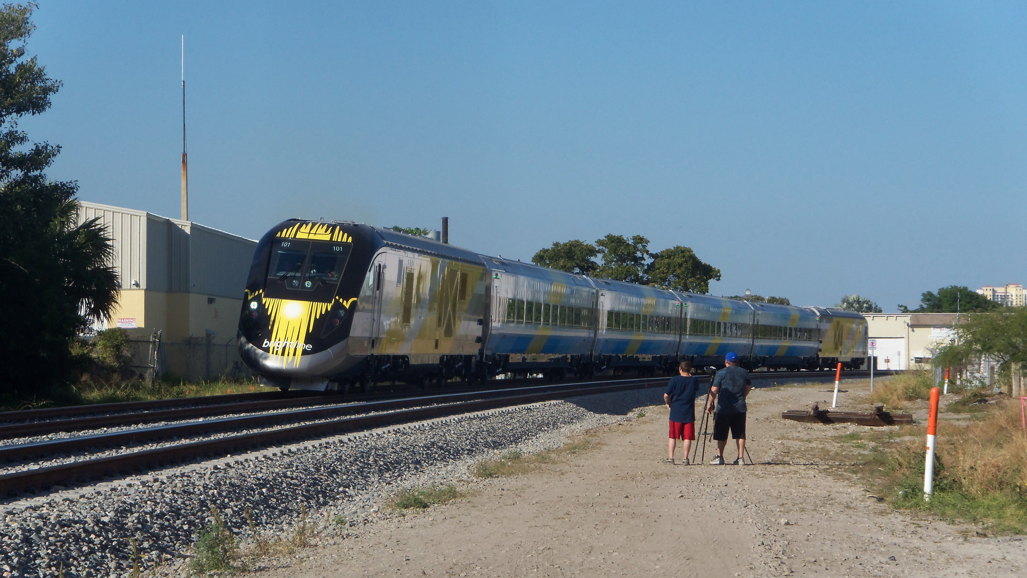 The inaugural run of BrightLine is finally caught on camera. Here at Southern Blvd near the overpass and Nottingham Blvd, this coach class is seen cruising on the WEST MAIN as they will meet up with FEC202 which is right behind us.